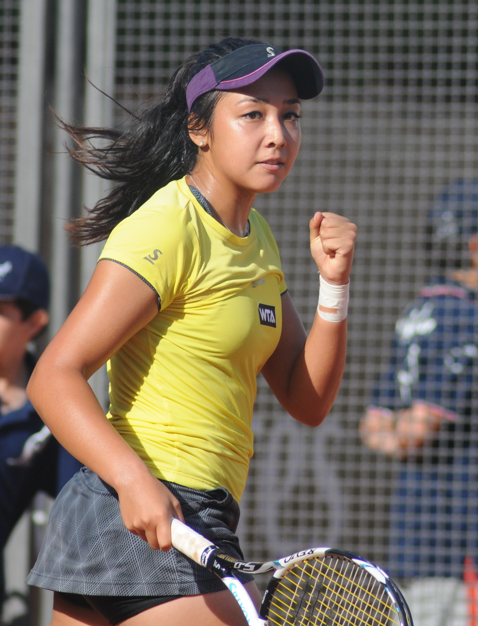 Zarina Diyas at the 2014 Internazionali BNL d'Italia aka the Rome Masters